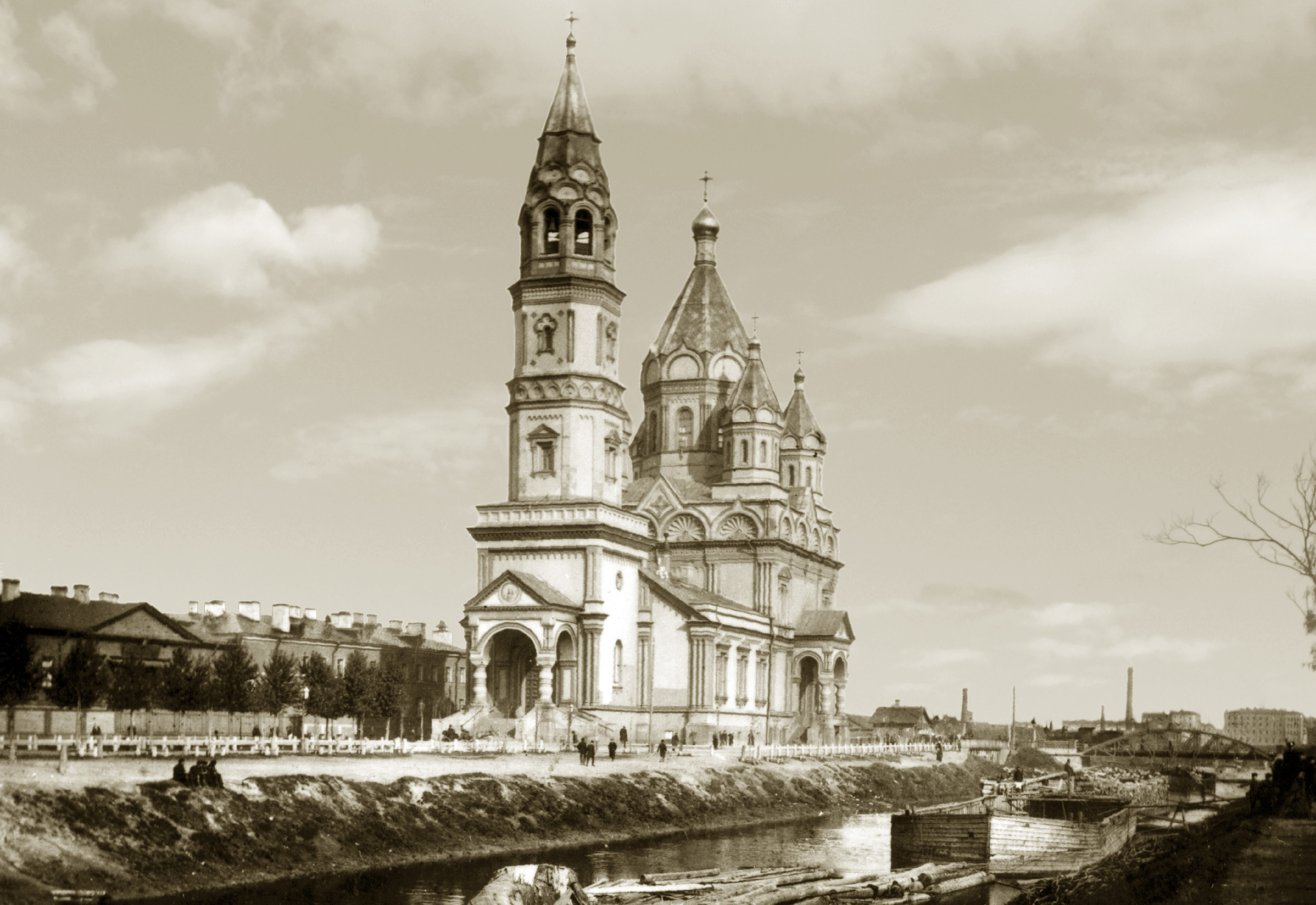 Church to the Saint martyr Miron (built 1849-1855, 1943 pulled down) on the bank of the Obvodny canal, regiment´s church of the His Majesty Lifeguard Jaeger Regiment to Saint Petersburg, Russia about 1900.